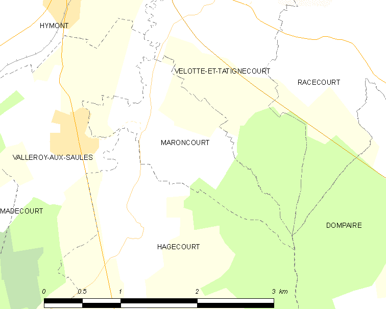 Map of French municipality Maroncourt